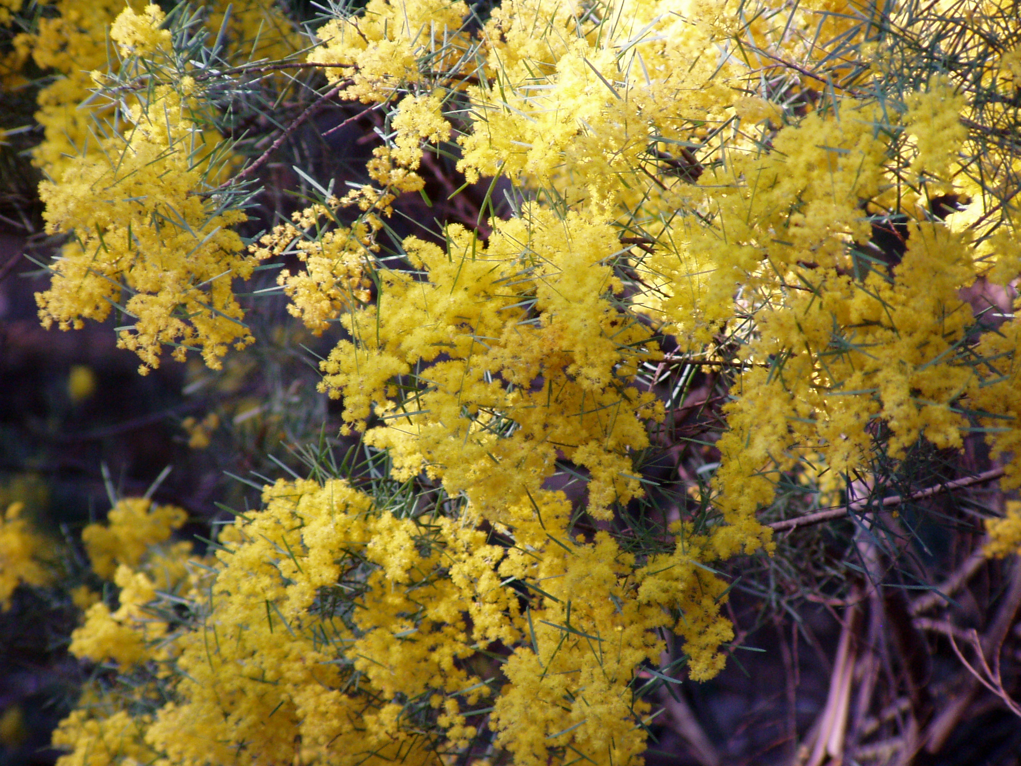 Description: Snowy River Wattle (Acacia boormanii) Location: Australian National Botanic Gardens, Canberra, Australian Capital Territory, Australia Date: 2005-09-21 Source: picture taken by Danielle Langlois Licence: Released under GFDL and Creative Commons licenses by the photographer